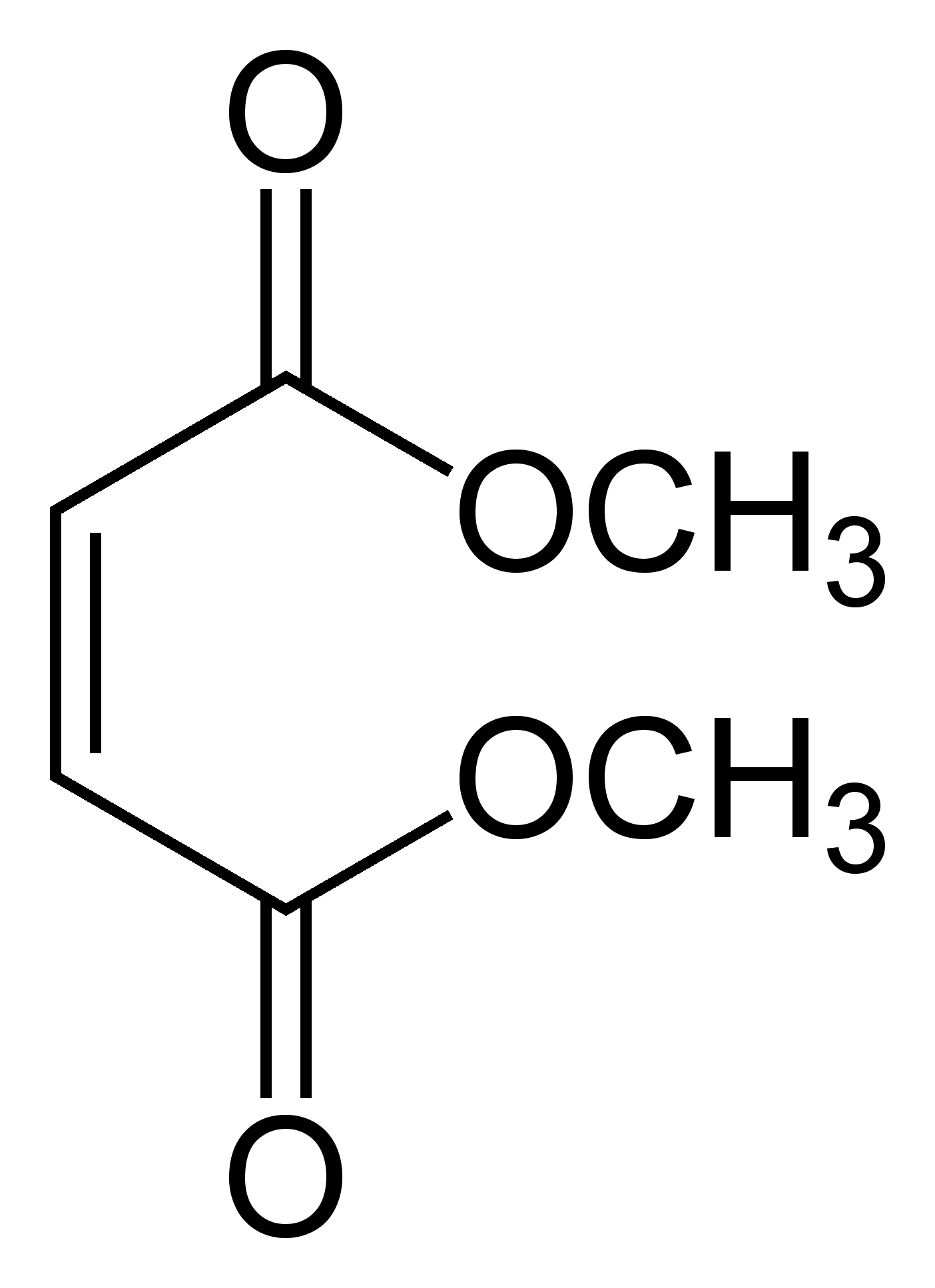 Skeletal formula of dimethyl maleate. Structure drawn in ChemBioDraw Ultra 12.0.